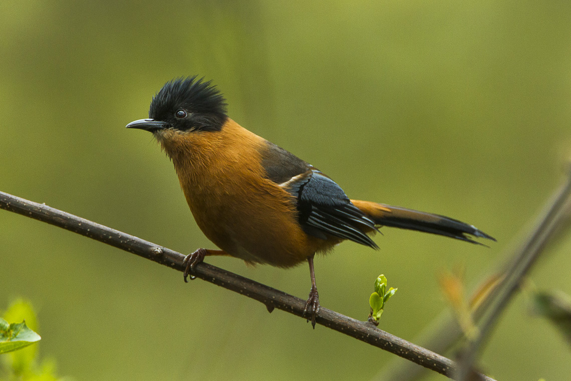 Rufous Sibia - Bhutan_S4E0238. This is Heterophasia capistrata bayleyi Charles (talk) 12:39, 1 December 2019 (UTC)